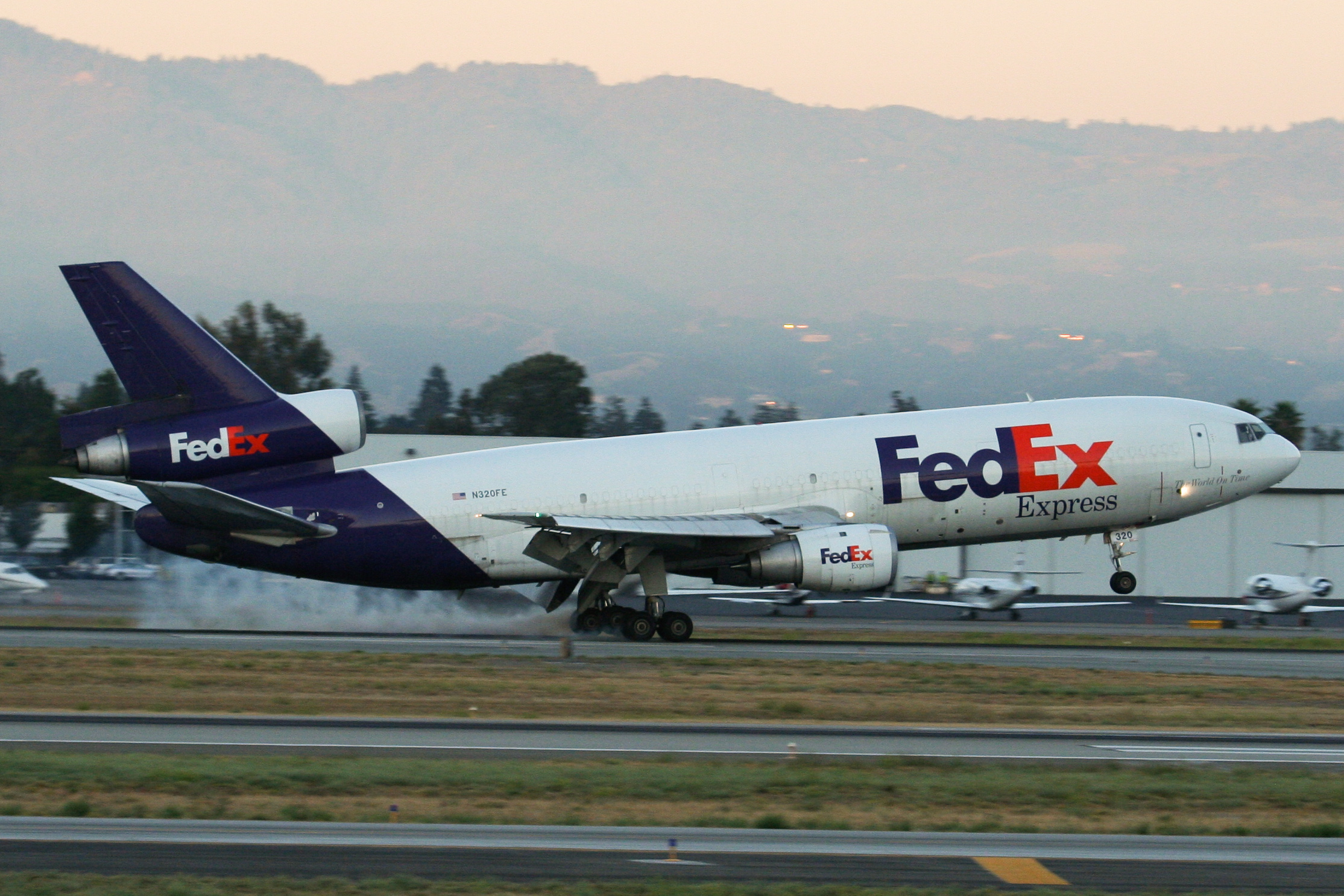 FedEx Express DC-10 landing at San Jose at 6:33am